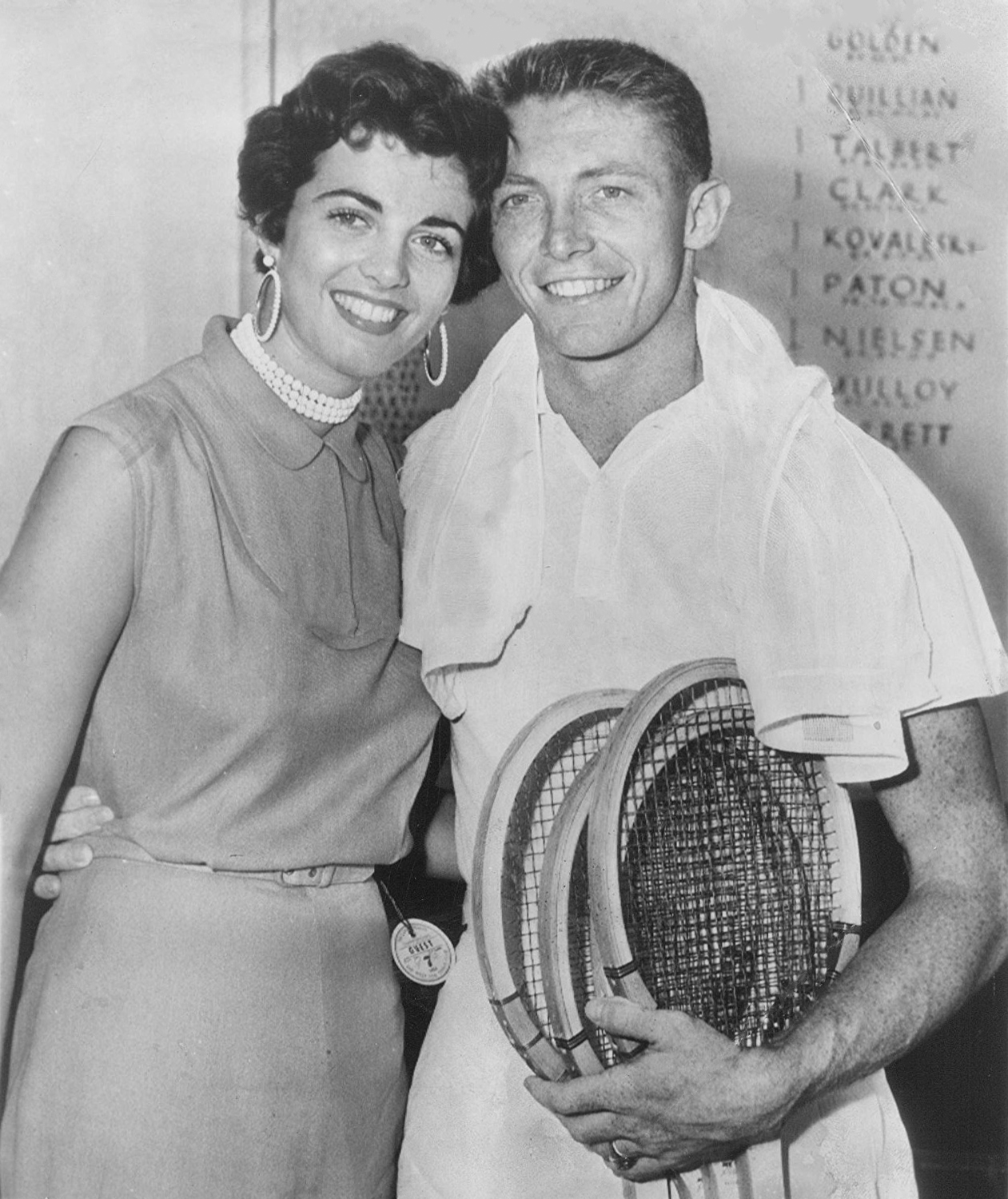 1953 Press Photo Tony Trabert Enters Semi Finals of the Singles Championship